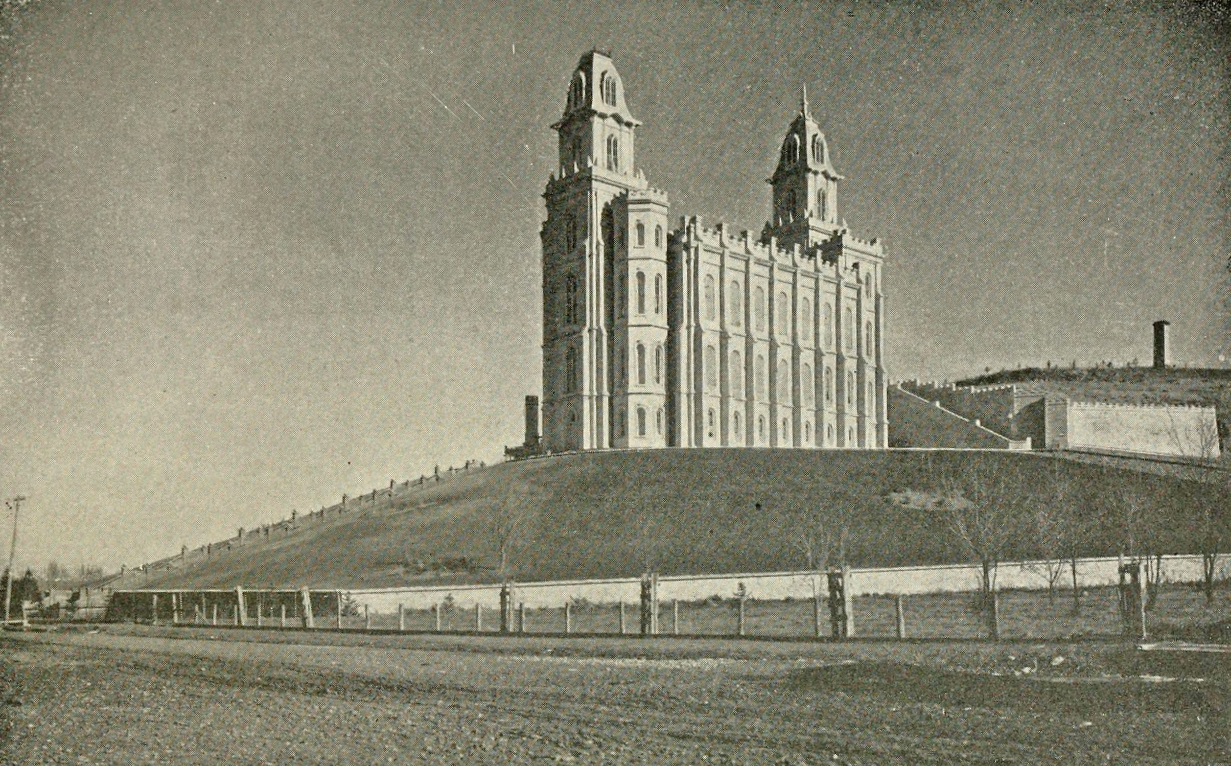 This is a photograph of the Manti Temple of The Church of Jesus Christ of Latter-day Saints published in the Improvement Era magazine. This building was constructed in Manti, Utah. It is still in use today.